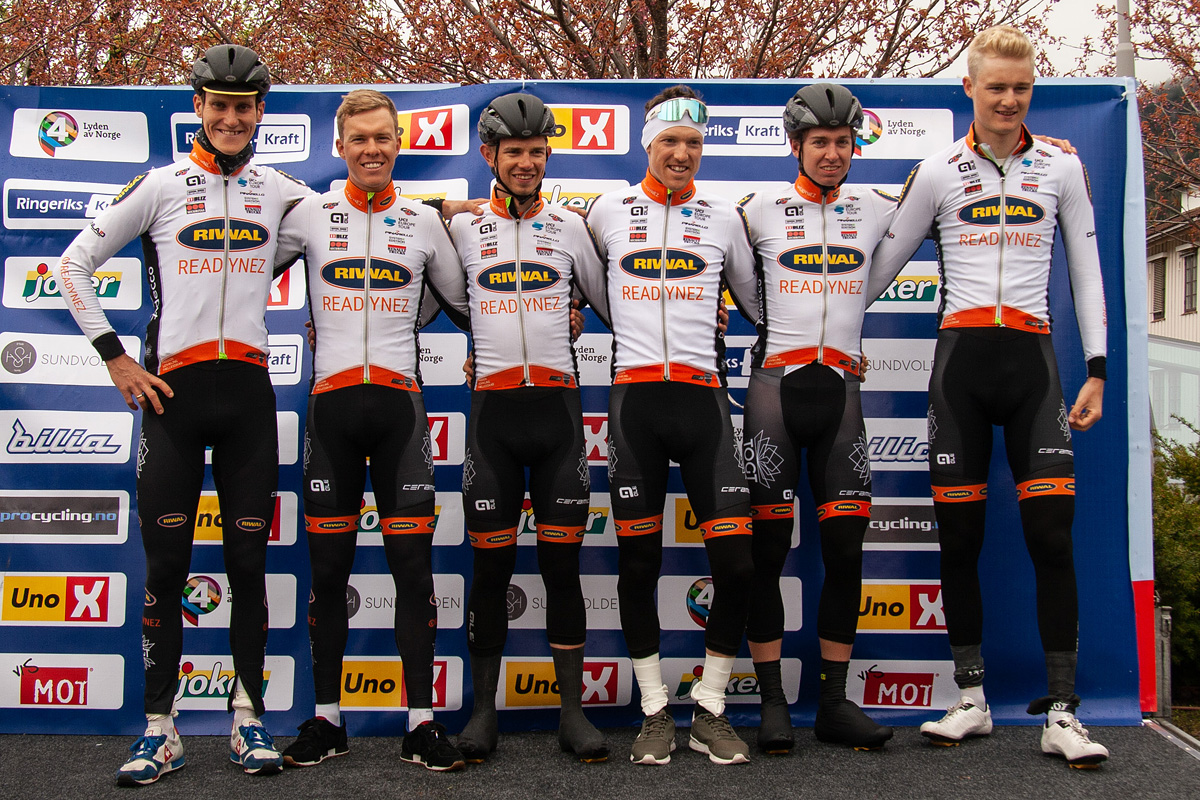 Sundvolden Grand Prix 2019, team presentation Riwal Readynez.